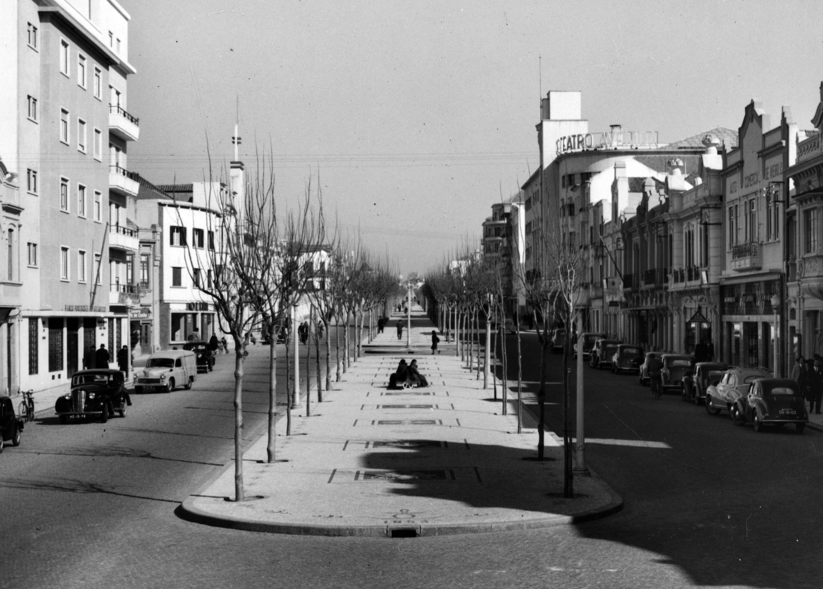 View of Dr. Lourenço Peixinho Ave. (West, facing East). Aveiro, Portugal. Photo taken in 1963.